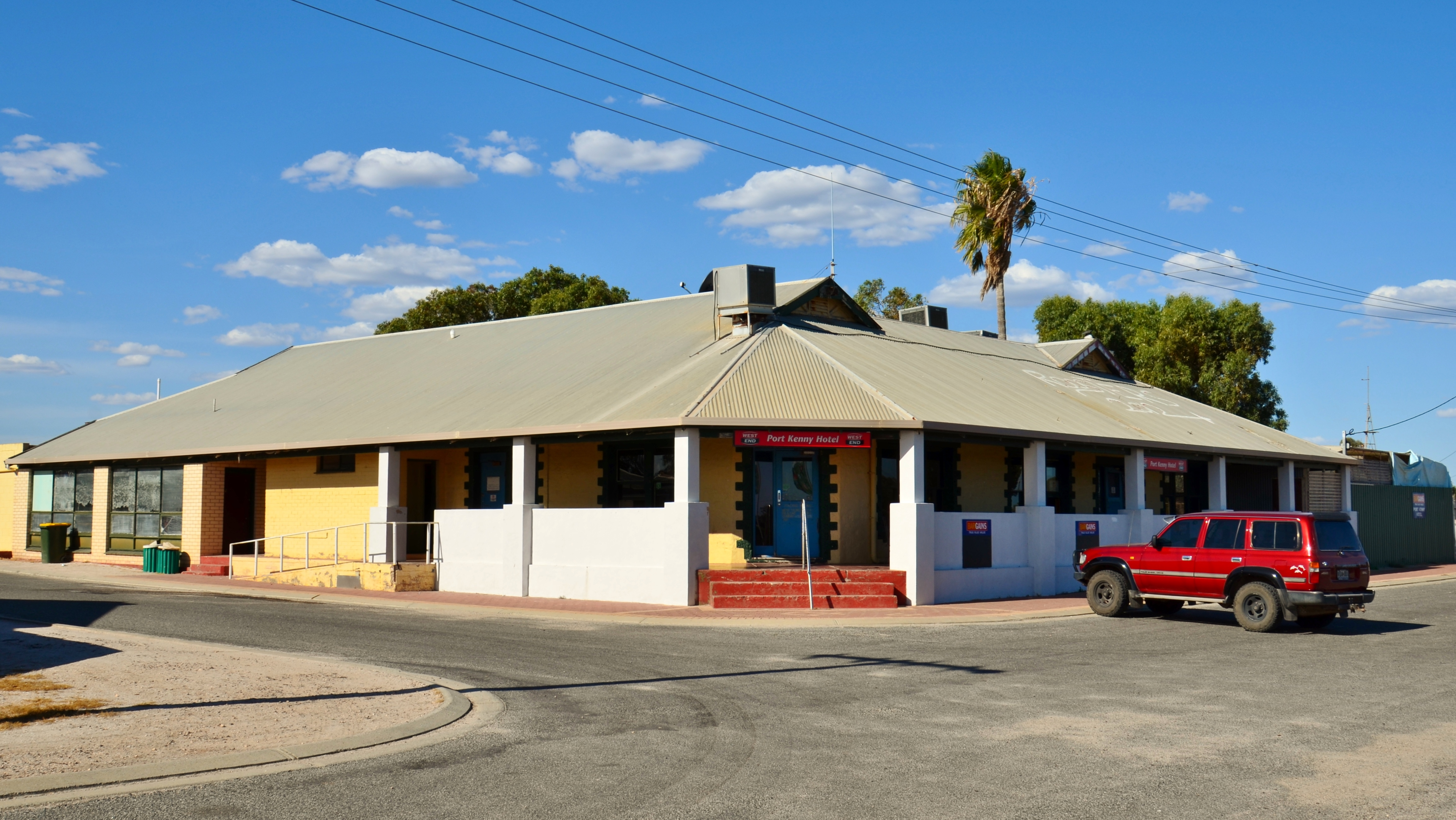 View of the Port Kenny Hotel, Port Kenny, South Australia